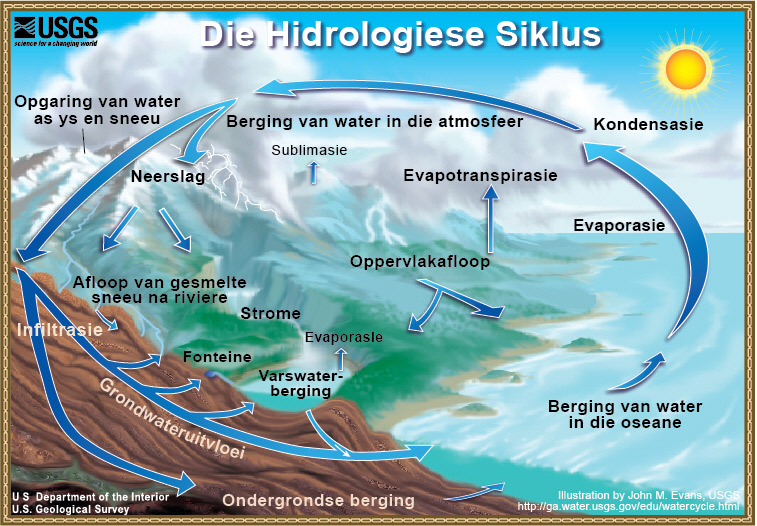 Water-Cycle Diagram (Afrikaans)